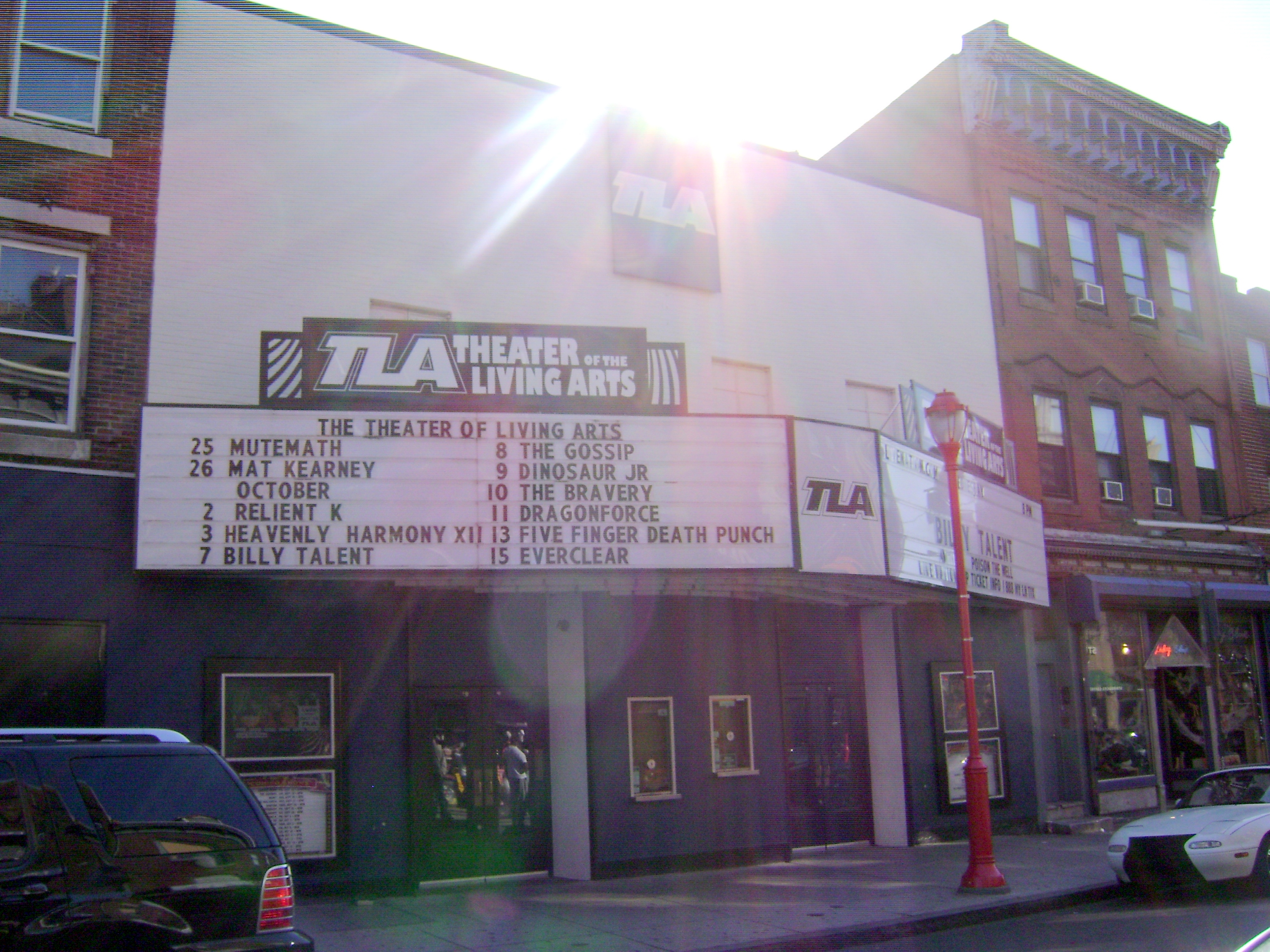 The Fillmore at the Theatre of the Living Arts aka the TLA, 334 South Street